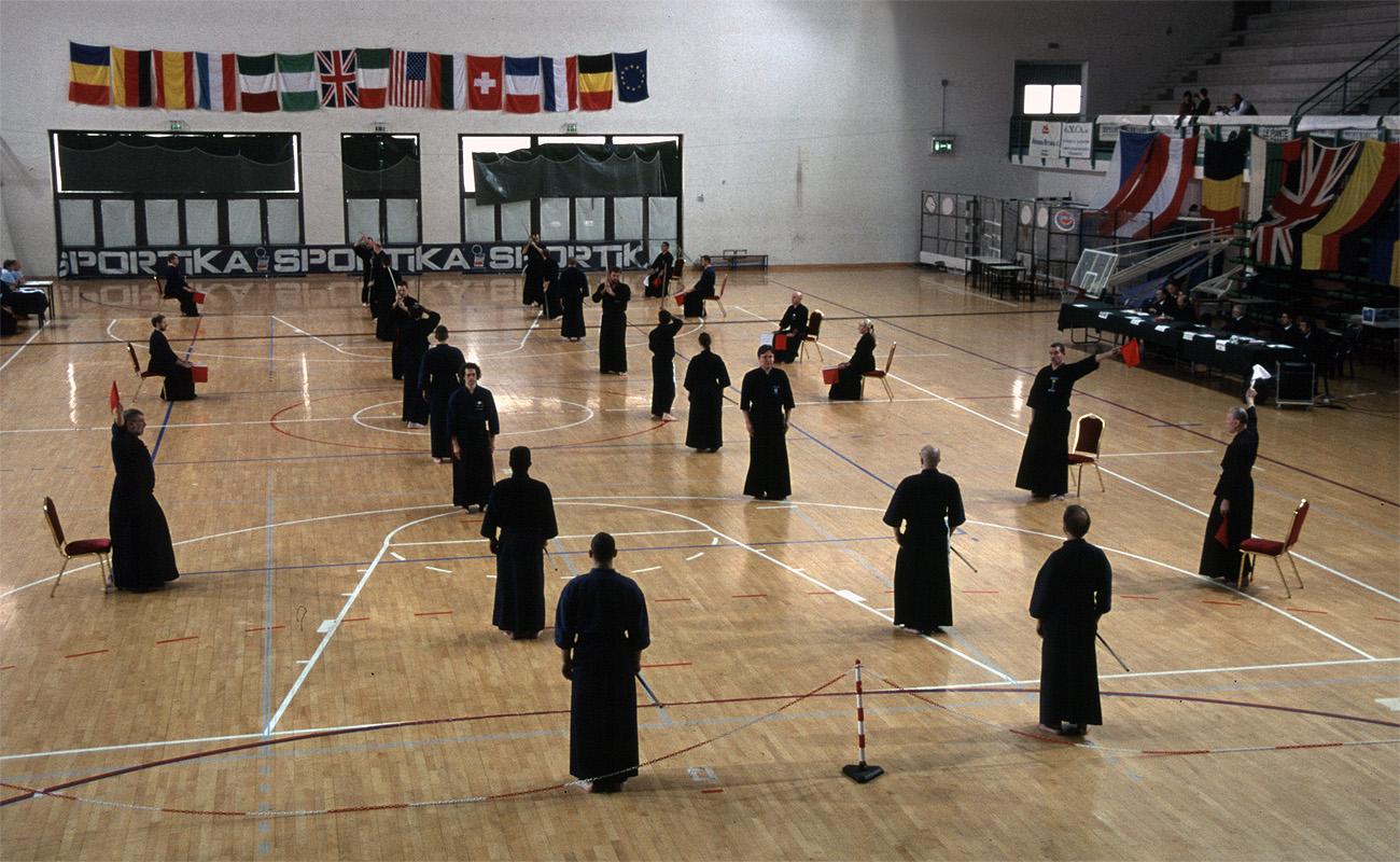 Jodo European Championships 2005 in Bologna: Team competition